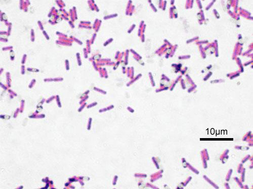 microscopic image of Bacillus subtilis (ATCC 6633). Gram staining, magnification:1,000. The oval unstained structures are spores.